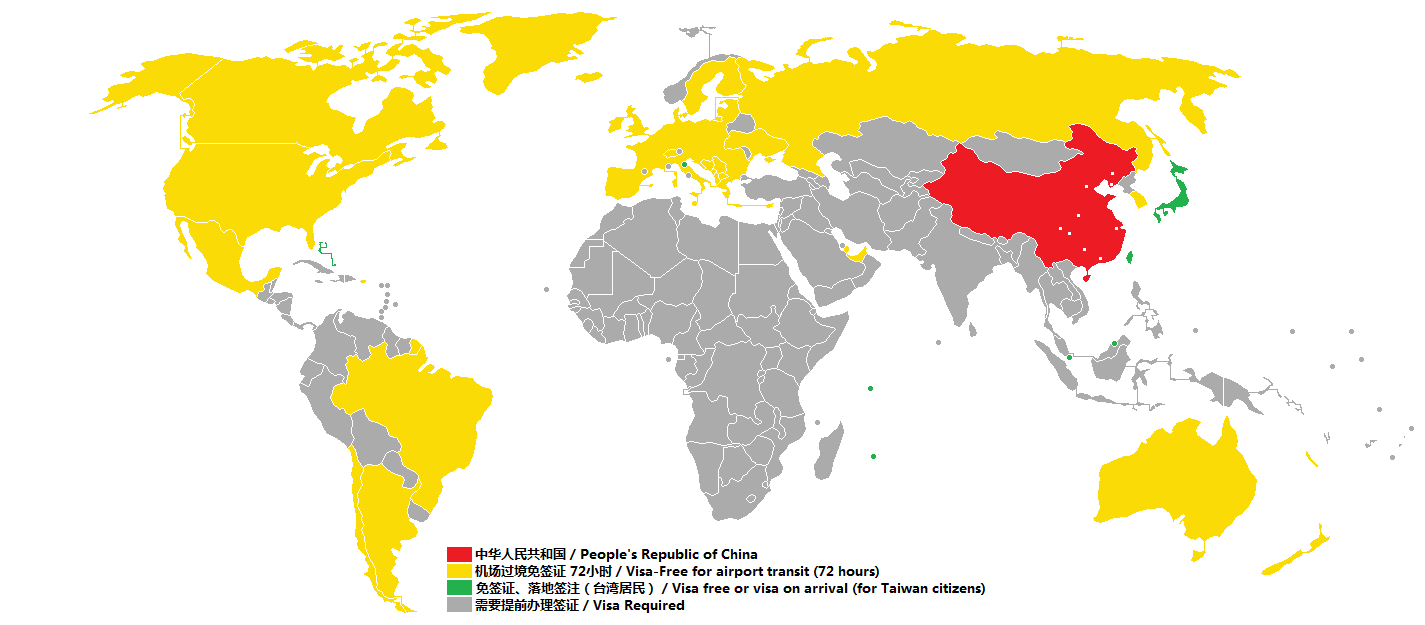 China visa free 72 hours